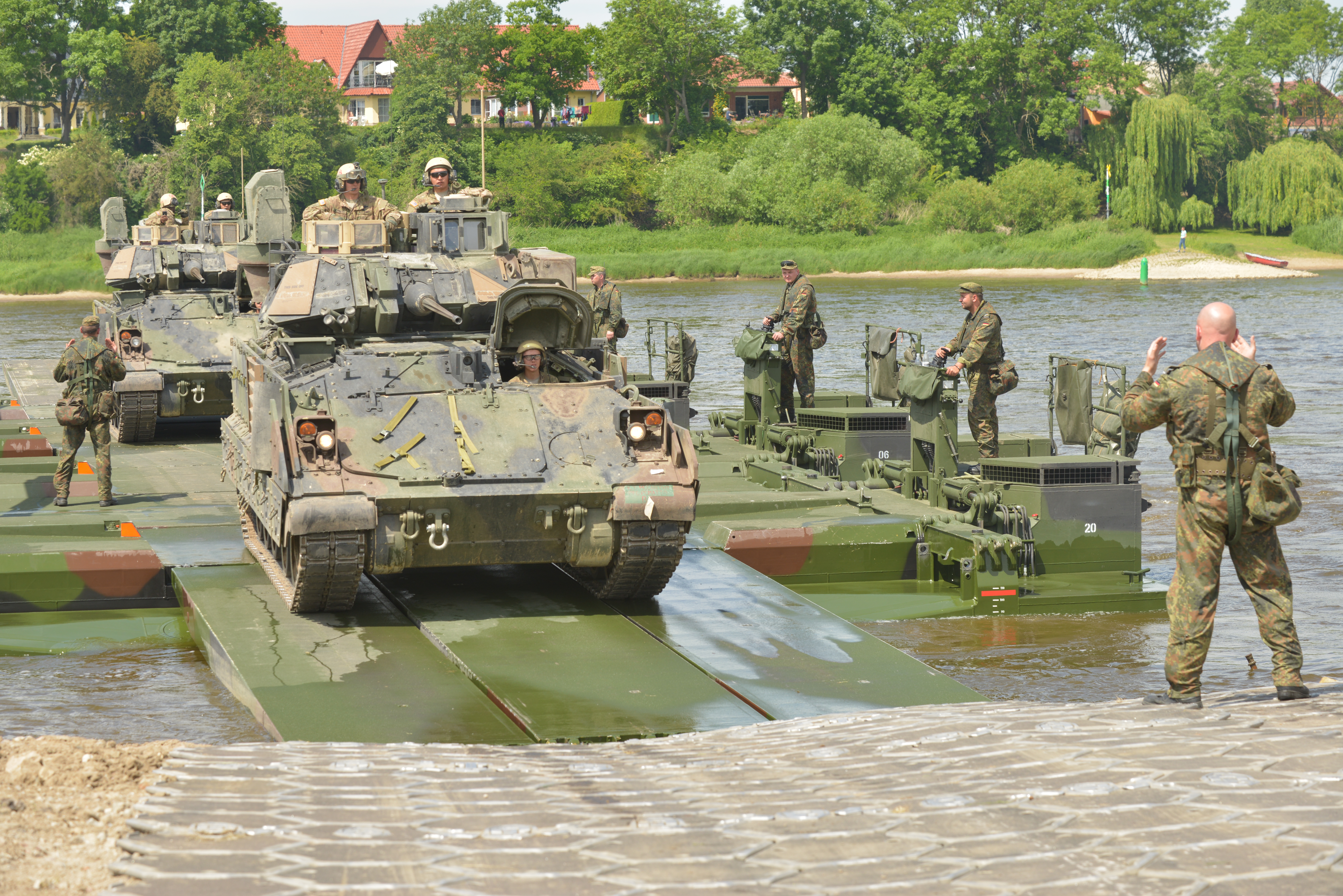 U.S. Army M1A2 SEP V2 Abrams Main Battle Tanks, M2A3 Bradley Infantry Fighting Vehicles as well as various trucks and vehicles of Delta Company “Dark Knights”, 3rd Battalion, 69th Armor Regiment, 1st Armor Brigade Combat Team, 3rd U.S. Infantry Division conduct combined assault river crossing operations at the river Elbe with German Army M3 amphibious bridging vehicles during exercise Heidesturm Shock near Storkau, Germany, June 06, 2015. (U.S. Army photo by Visual Information Specialist Markus Rauchenberger/released)